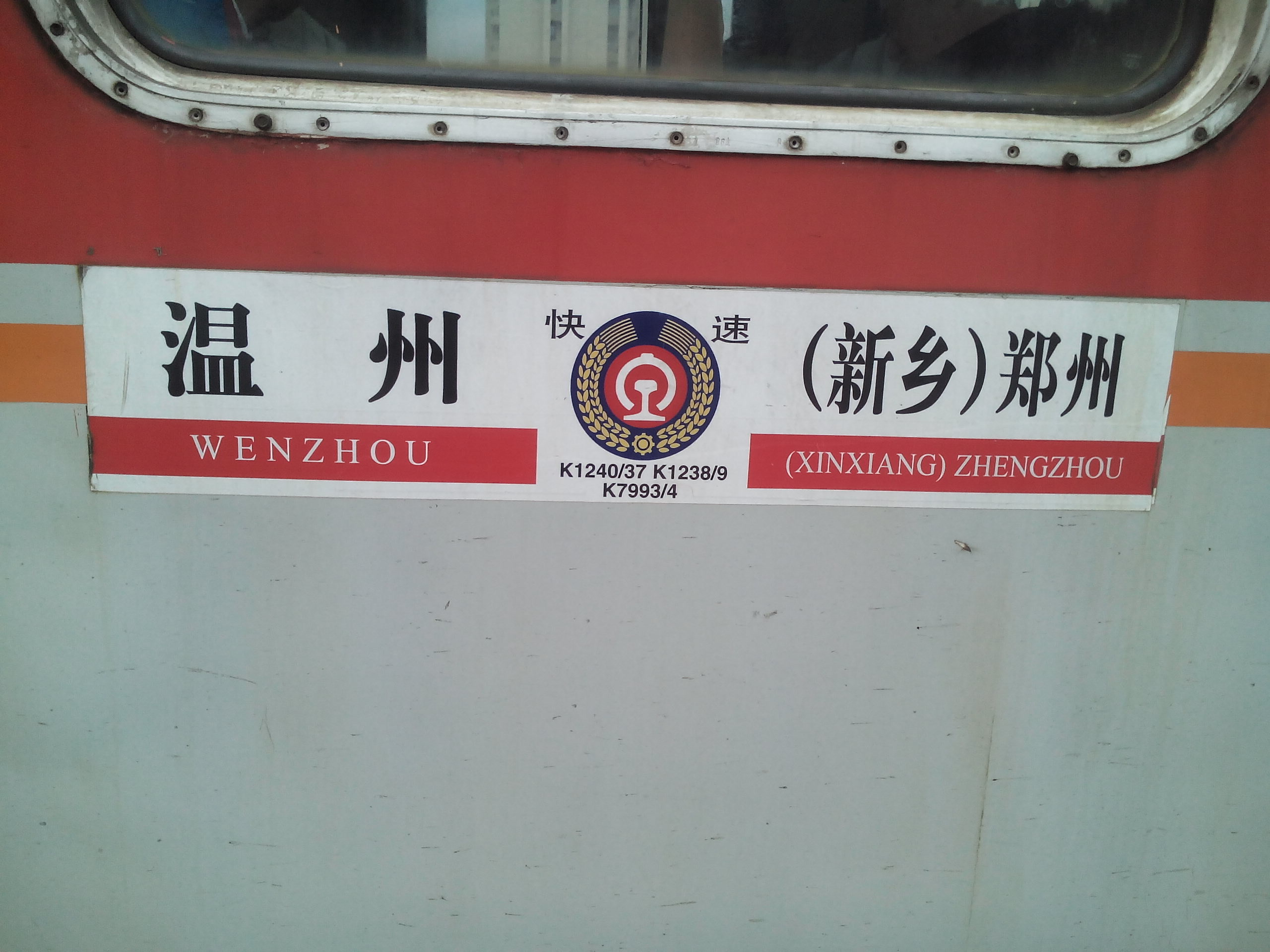 Taken at Jinyun Station, this train follows a weird circle of "Green-Red-Green"...